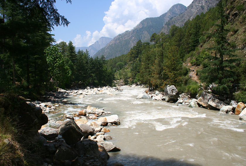 No pilgrimage (Sar Pass Trek in Kullu District of Himachal Pradesh, India.) would be complete without mentioning this holy river (Parvati). It was lovely feeling to spend a few days alongside this love abode of Parvati. Its transparent, abundant & turbulent waters mesmerise any body as she passes through deep valleys. Our camp at Kasol was just located besides her. As it meets a smaller & calm Beas at Bhunter, about 30 tp 40 km. down below Kasol, it becomes Beas. This picture was however taken as we go up from the bridge towards our rappelling site.